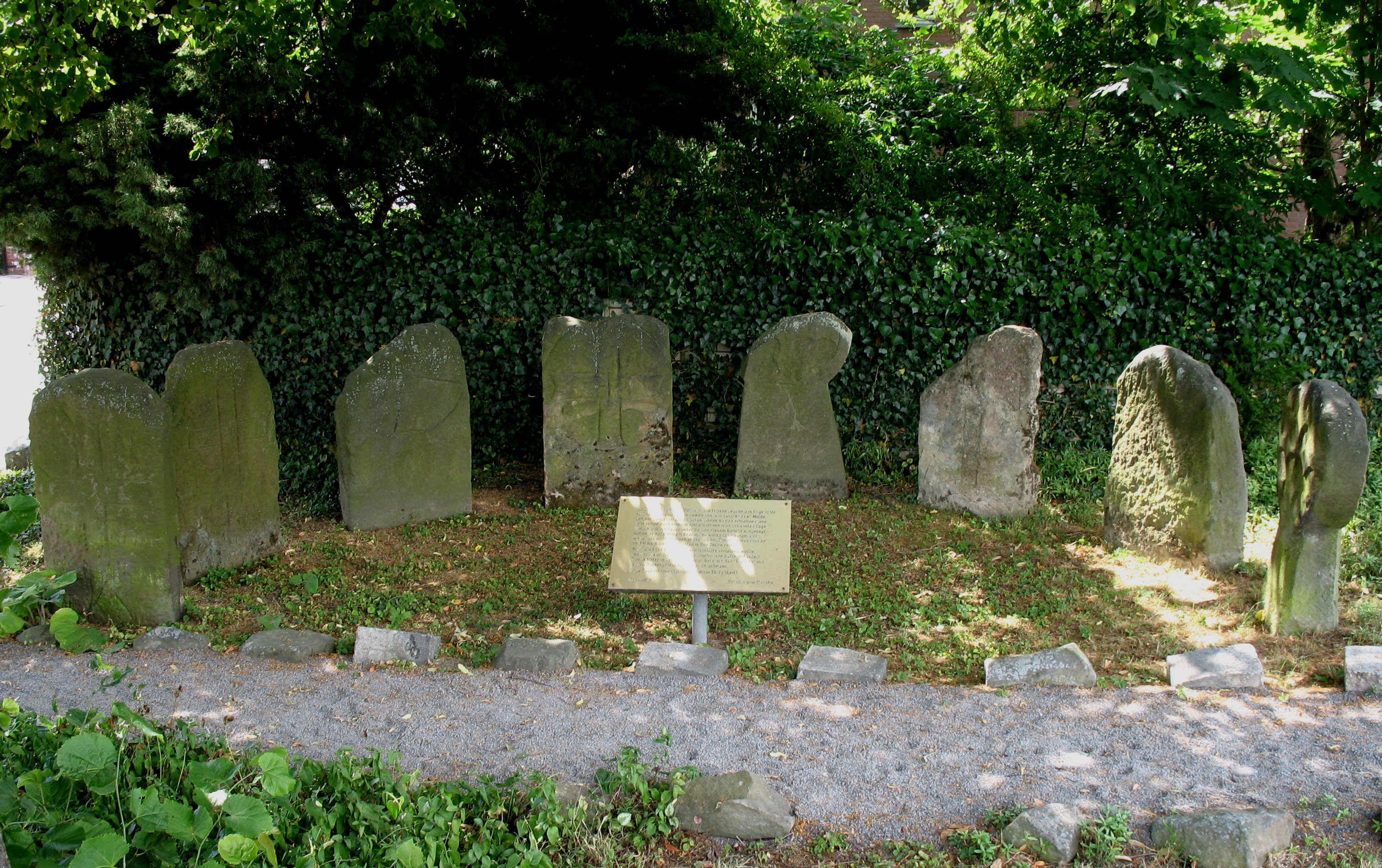 Benthe, "Sieben Trappen", Lower Saxony, Germany